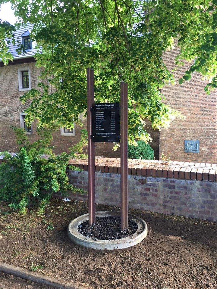 Das Mahnmal am neuen Standort im Schloss Nörvenich